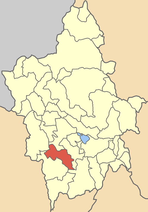 Position of Dodoni Municipality (Δήμος Δωδώνης) in Ioannina prefecture (Νομός Ιωαννίνων), Greece